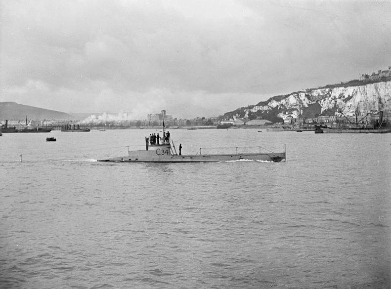 Photograph of British submarine C 34.